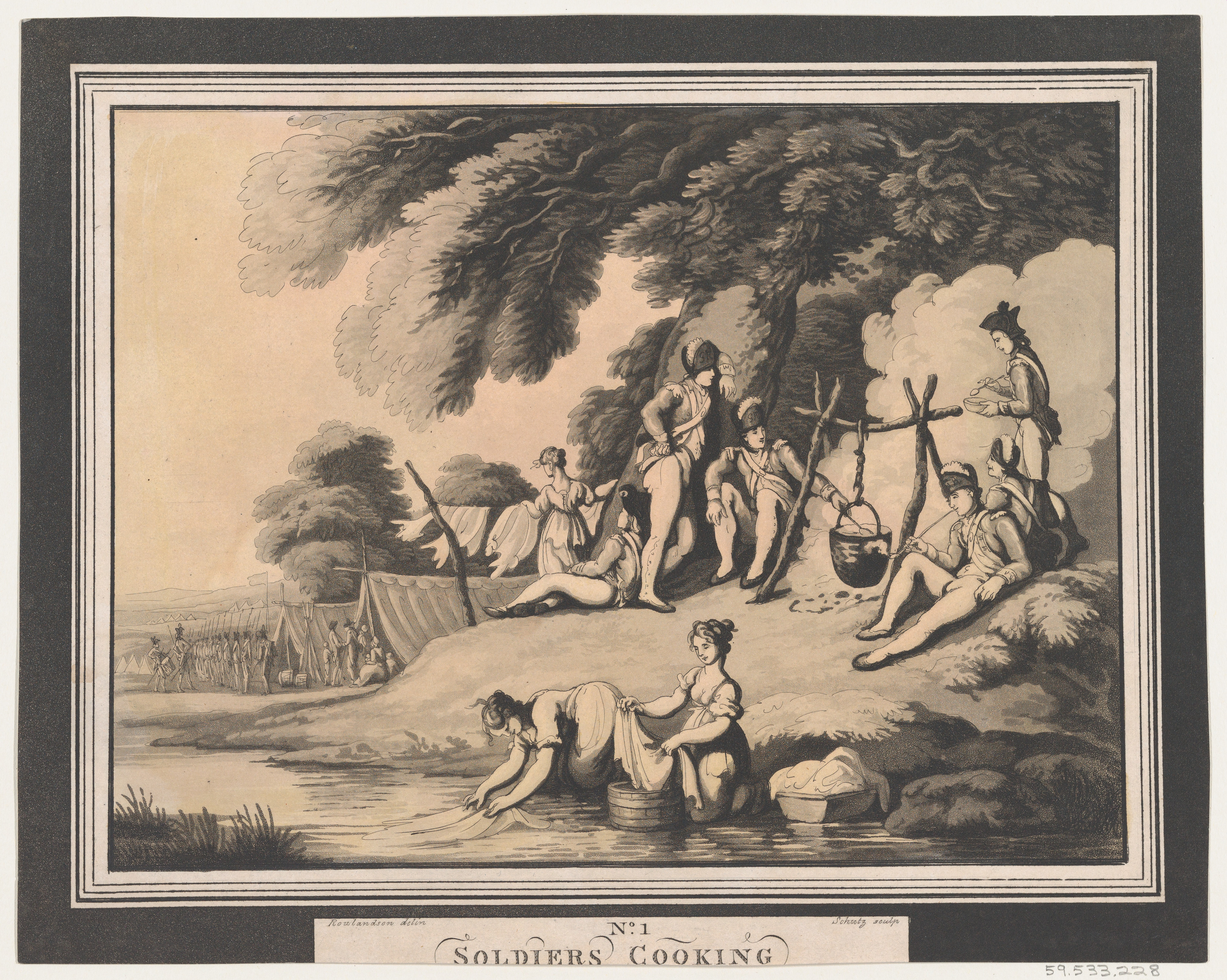 Print; Prints